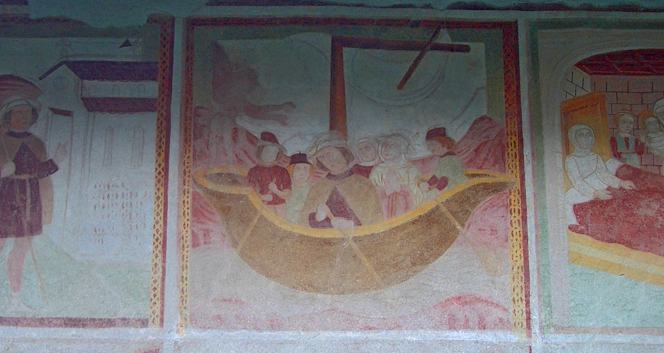 Dionisio Baschenis, scenes from the life of St. Anthony the Abbot, fresco, 1493 ca, Pelugo, Sant'Antonio Abate church